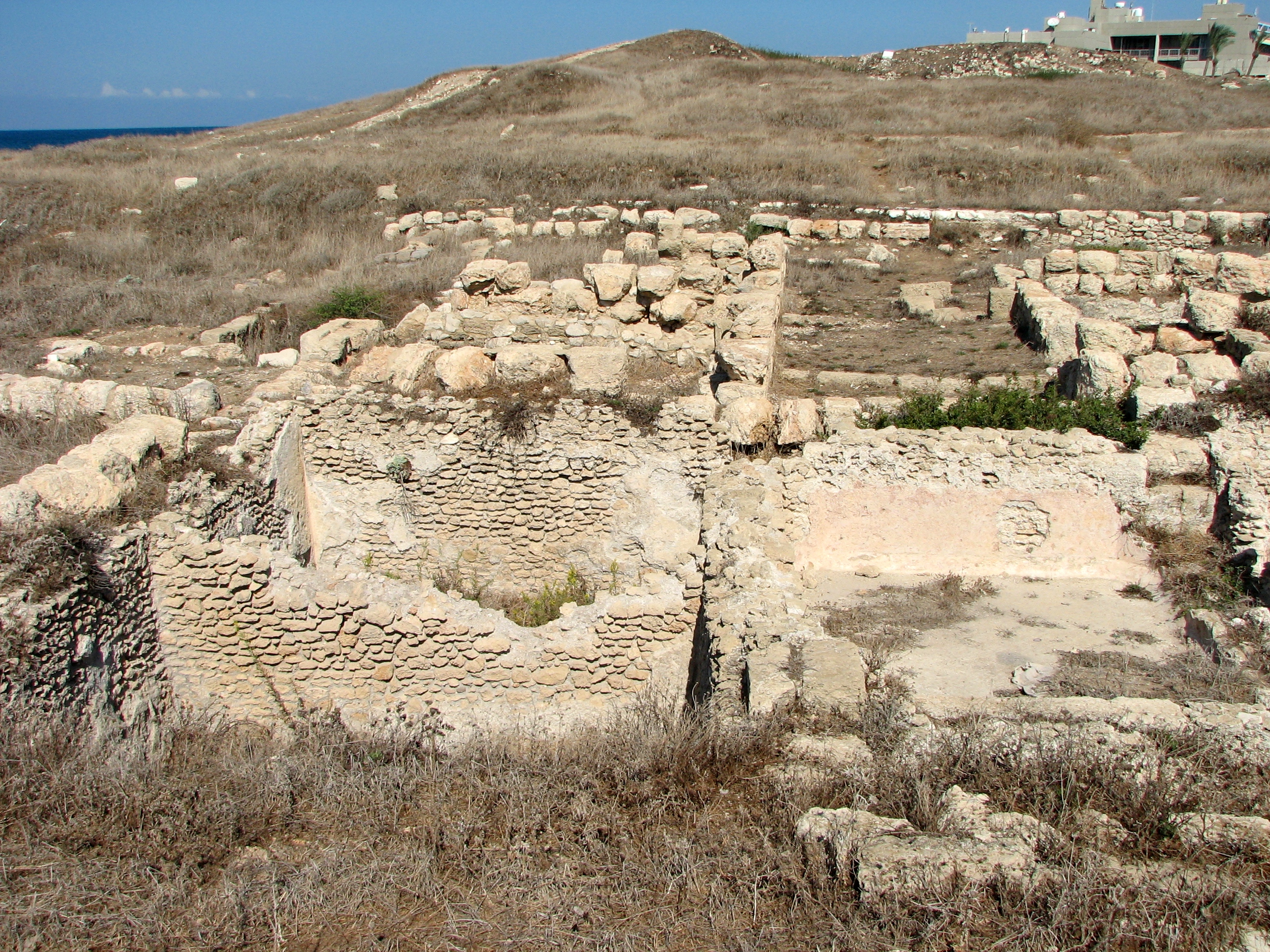 Tel Shikmona is an ancient Tell (mound) situated near the sea coast on the southern entrance to the modern city of Haifa, Israel.